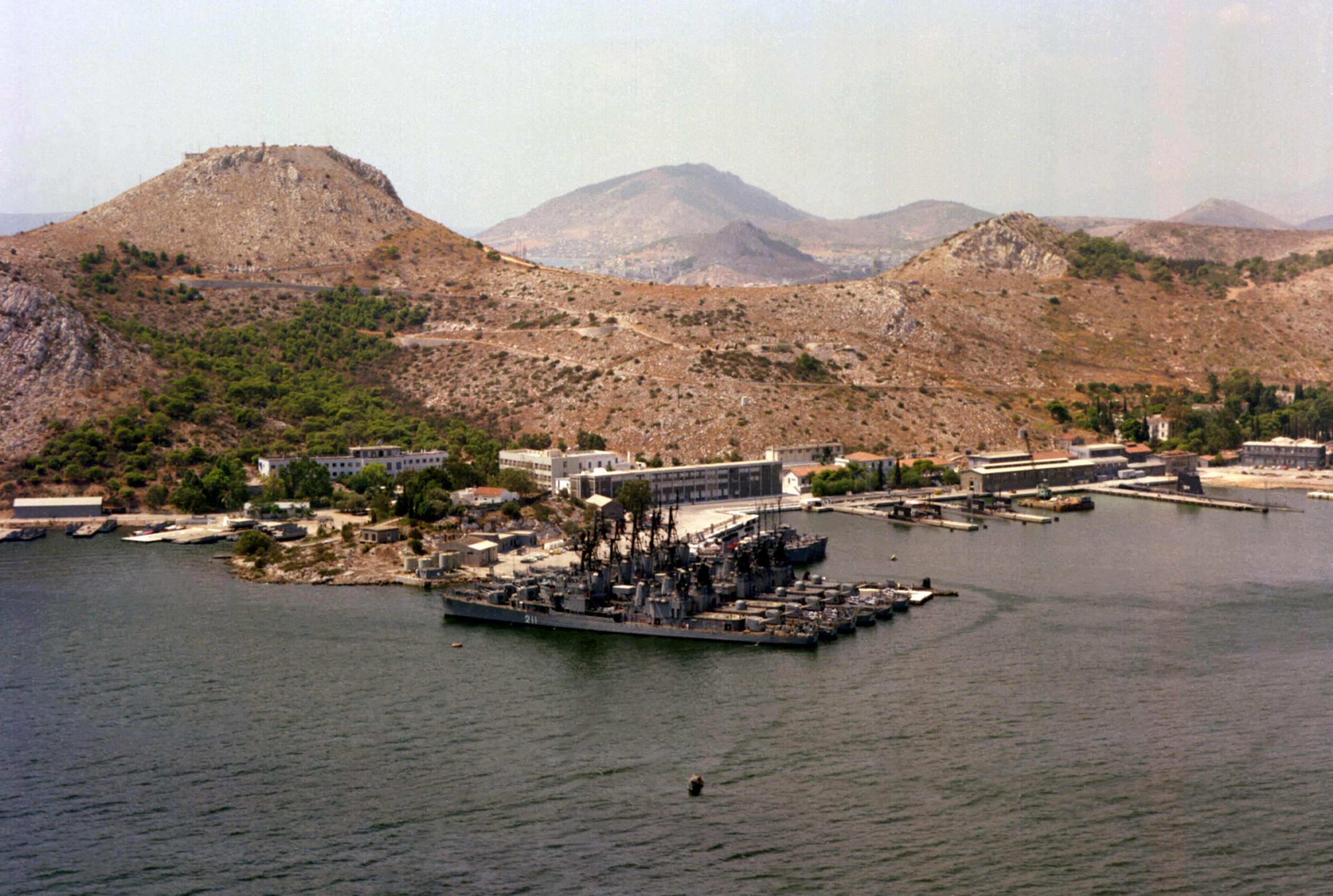 View of the Greek Salamis Naval Base in 1979. Visible are six Greek Gearing and Allen M. Sumner-class destroyers, Miaoulis (D211) (ex USS Ingraham (DD-694) is nearest to the camera. Also visible are four Type 209 submarines, a former U.S. GUPPY-class submarine, probably Katsonis, and three former U.S. Navy Bluebird-class minesweepers.